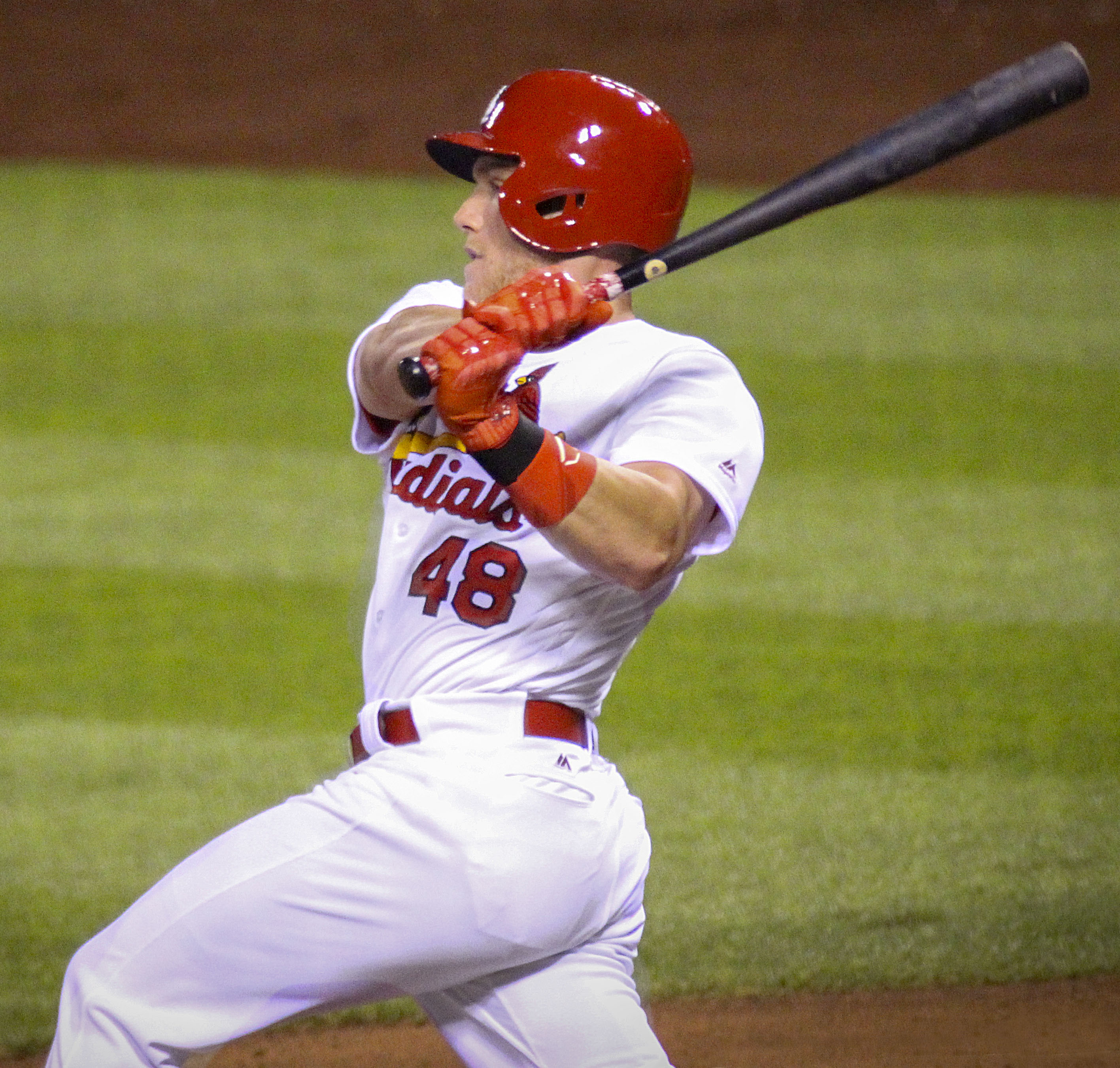 Harrison Bader of the St.Louis Cardinals strikes his first major league hit. A double down the left field corner.